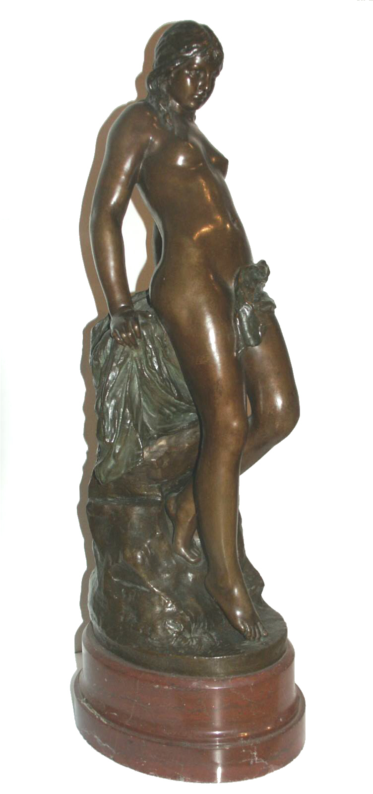 Nymphe or Badende, 1883 (Bronze) made by Heinrich Weltring (1847-1917), today in Emslandmuseum Lingen. Weltring was a German sculptor